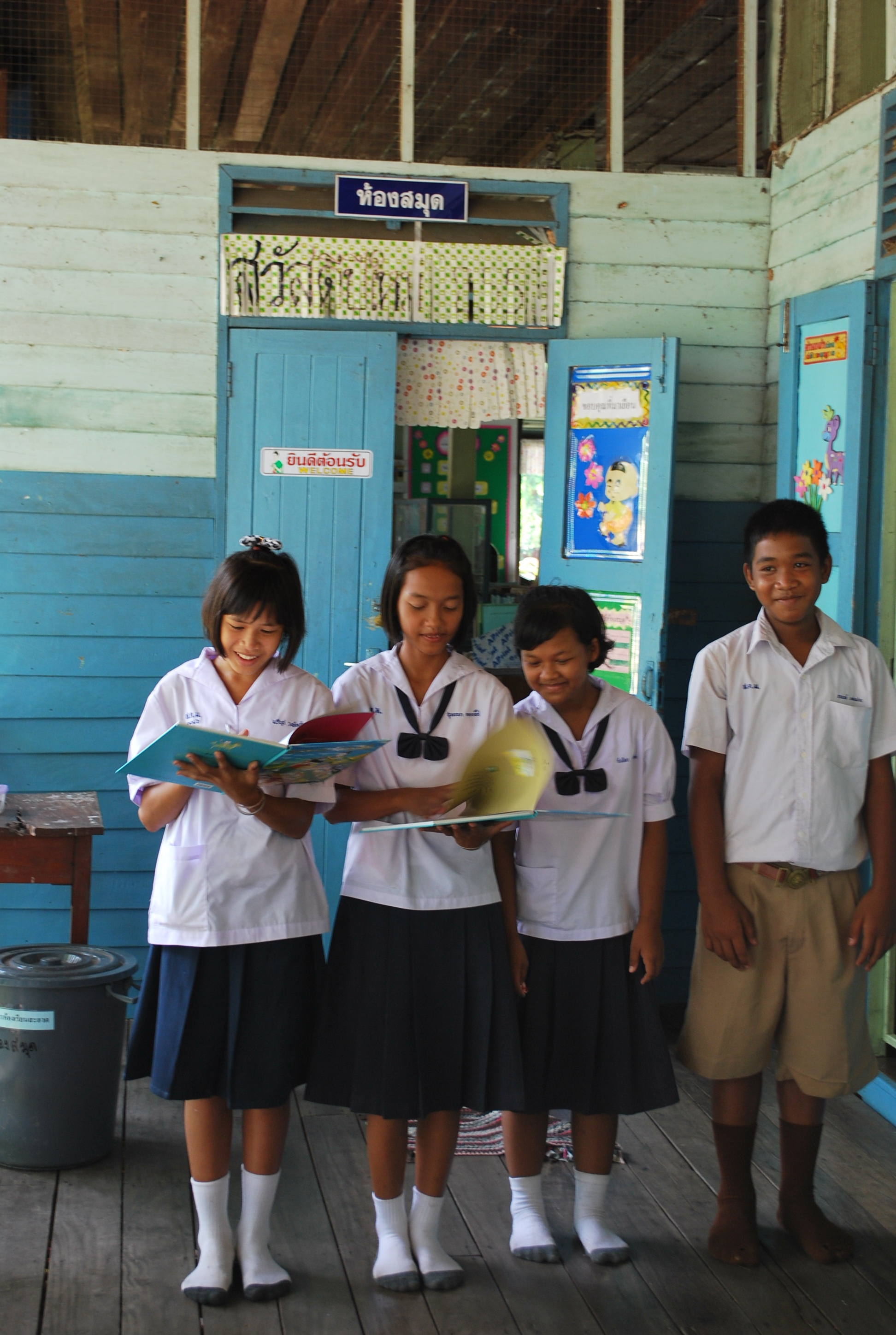 student in Ban Hat Suea Ten School in Wat Pa Kanun, Khung Taphao subdistrict, Mueang Uttaradit, Uttaradit Province, Thailand.